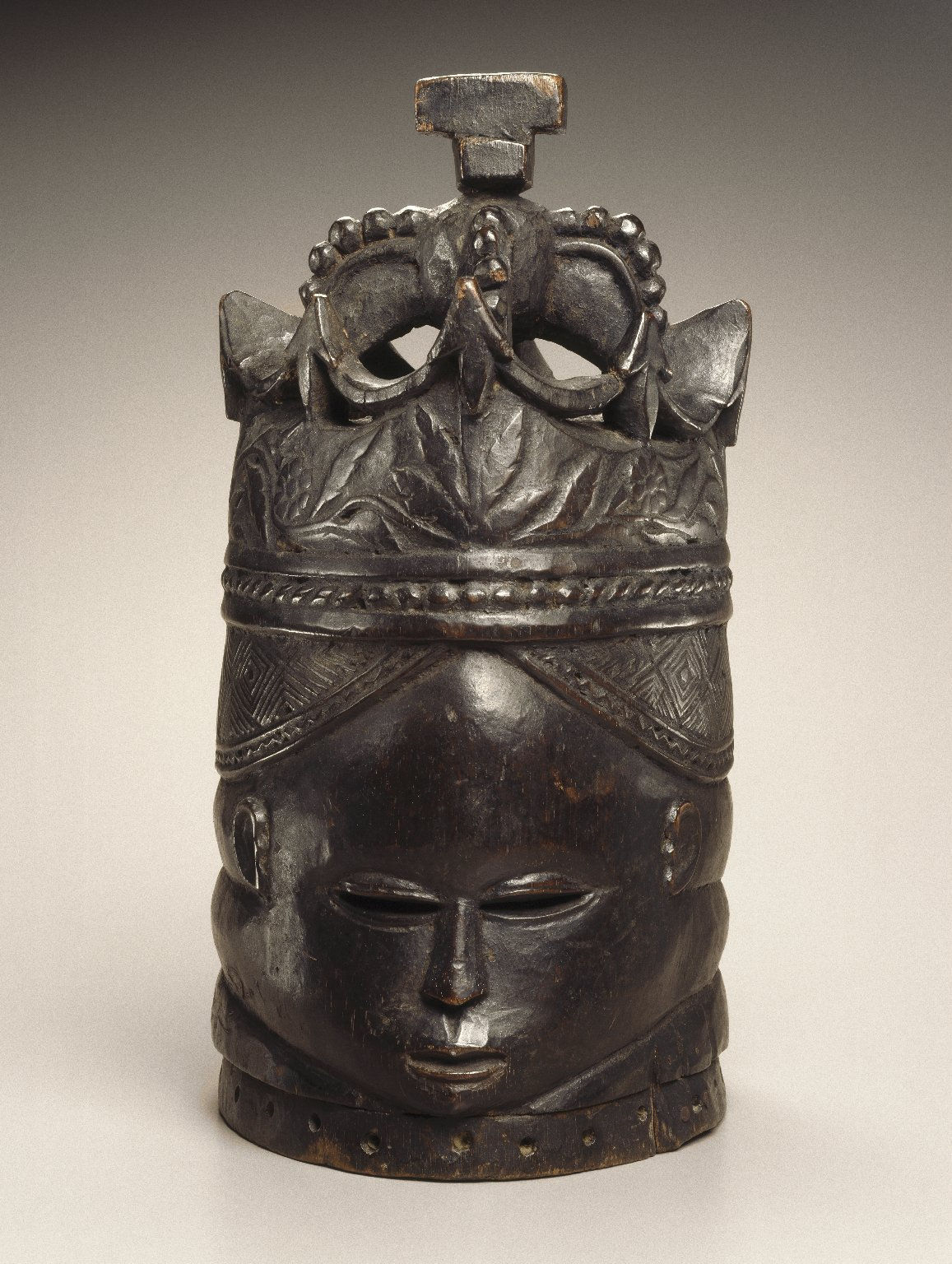 Female with European style crown as headdress. Bulging forehead with features clustered in bottom half of face. Large coffee bean eyes with slits, small nose and mouth. Plump ringed neck, small flat ears. Hair is indicated by relief diamond pattern. Crown has flower and leaf pattern surmounted by four bridges joined to a central knob. Holes around bottom of mask for attachment of costume. Crown headress supposedly taken from coins of Queen Victoria. Condition: Excellent; scattered small nicks all over, rim crack above right ear and at back left of crown.